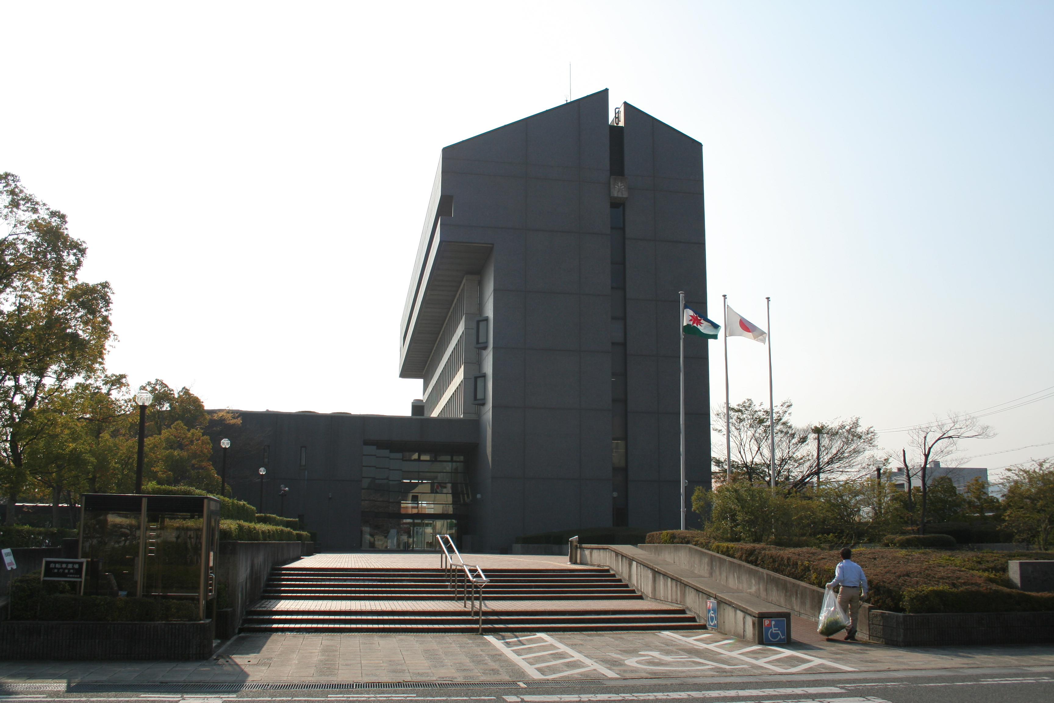 Ako city office in Ako City, Hyogo, Japan.